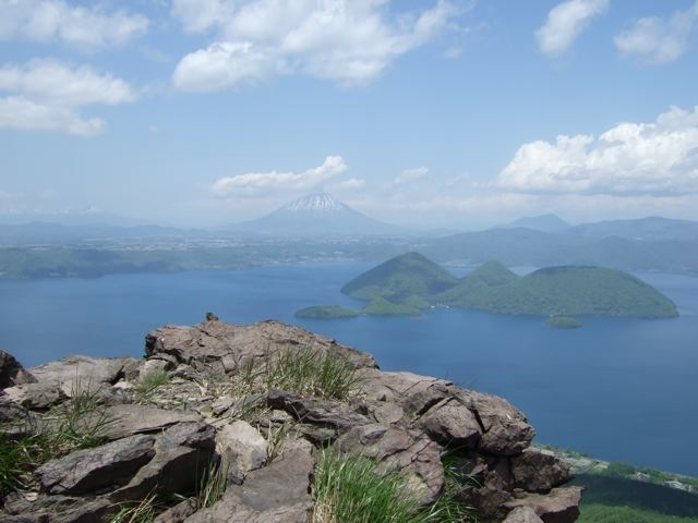 the view of Lake Toya from the top of Mt. Usu